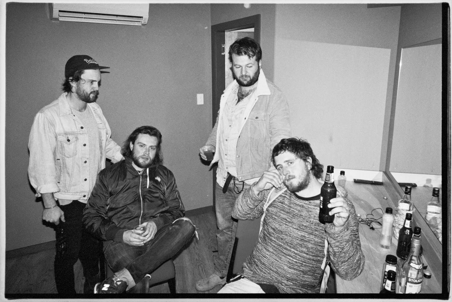 Bad//Dreems, Enmore Theatre Sydney, 2017. Photo: James Adams